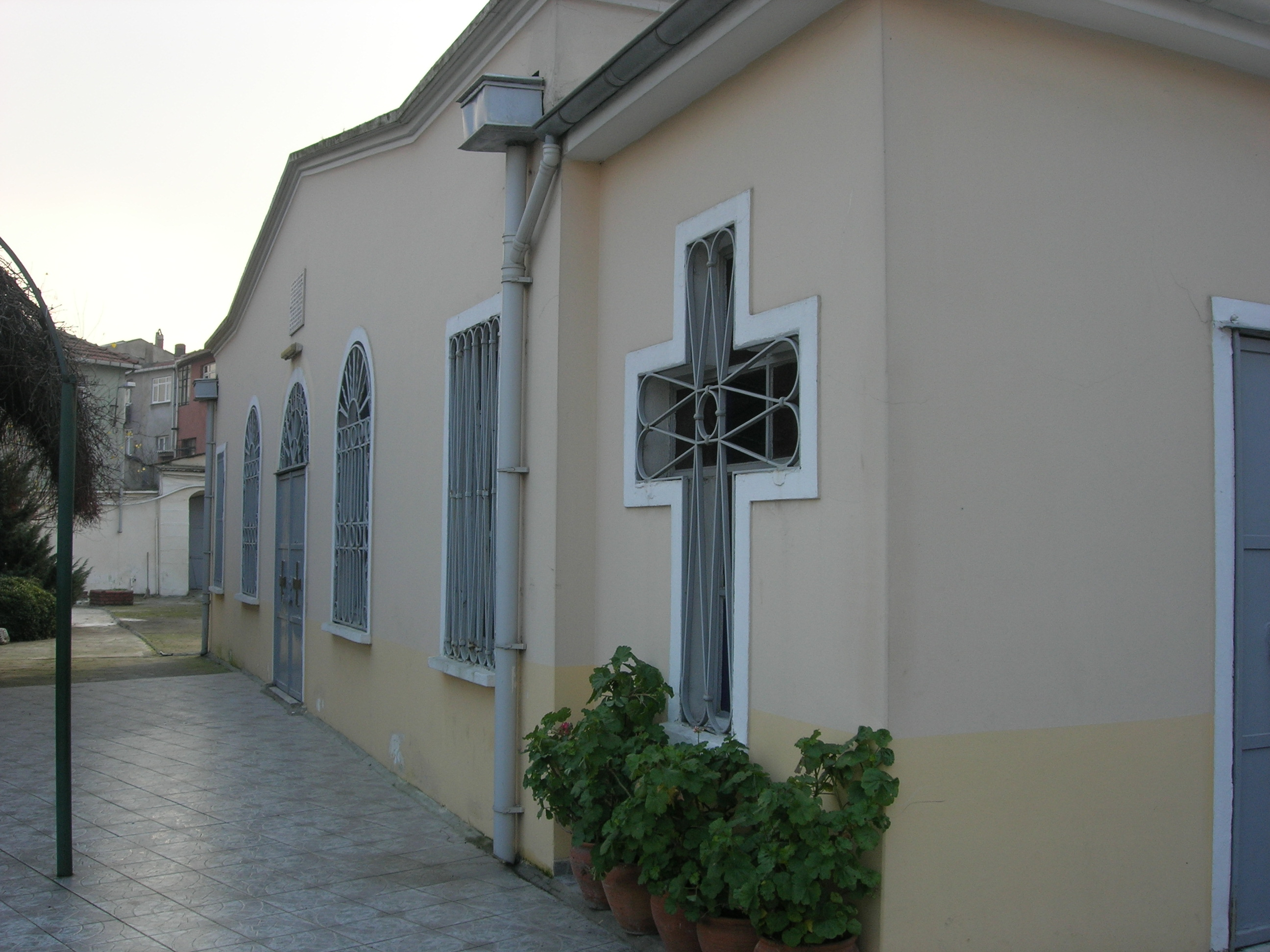 The Church Saint Mary of Blachernae in Istanbul seen from northwest